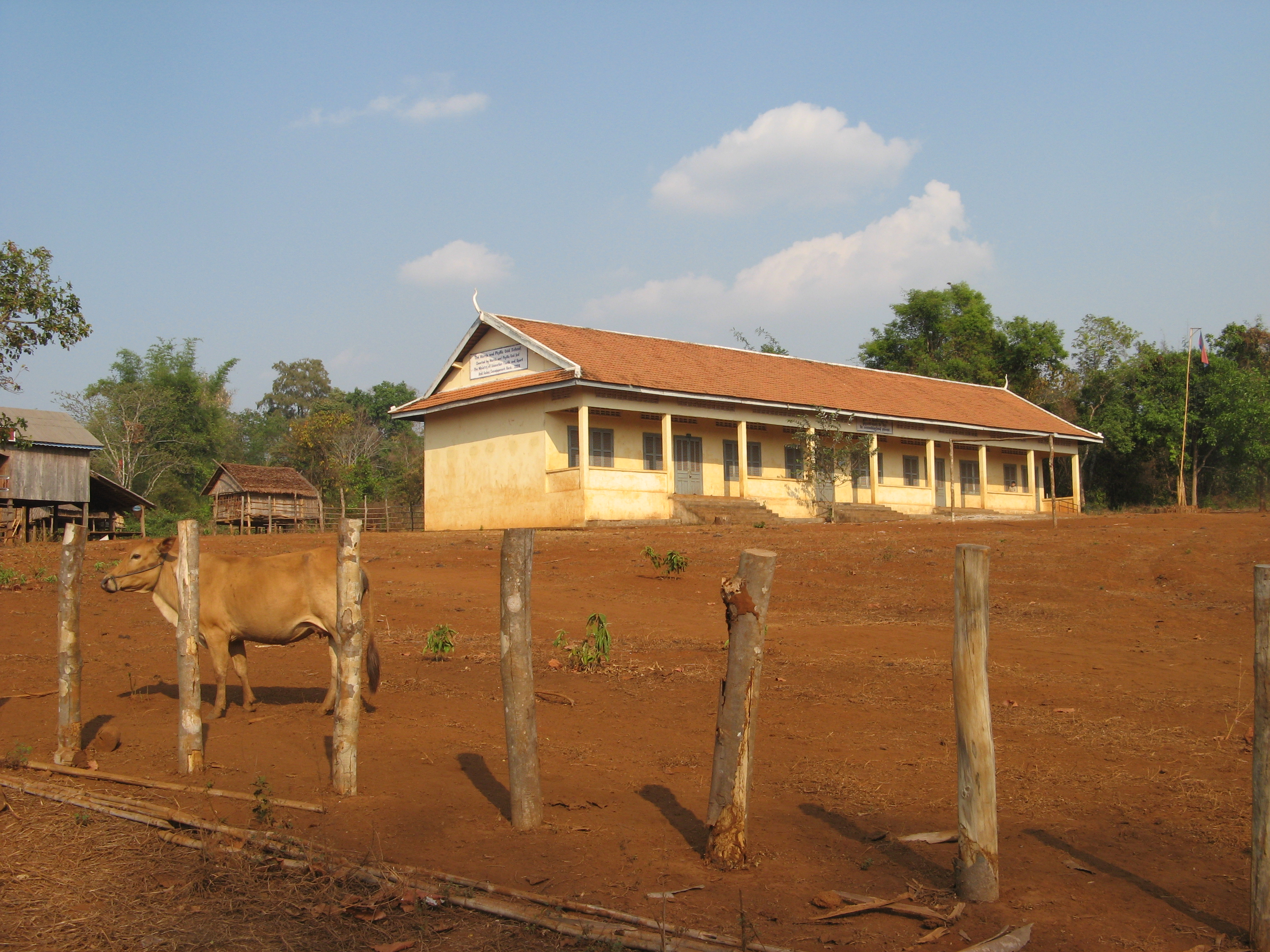 Tribal village school in Ratanakiri, Cambodia